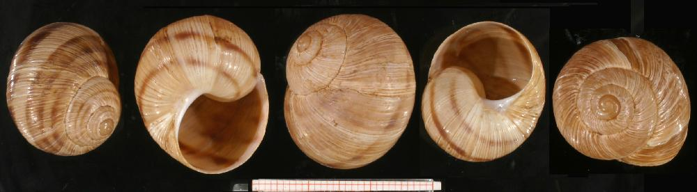 Shells of species Helix figulina